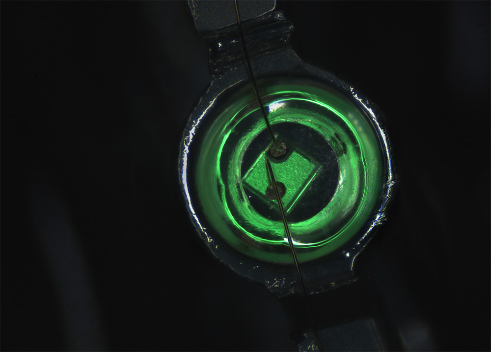 Light-emitting junction of a green LED, in operation, under optical microscope. Magnification about 50x.